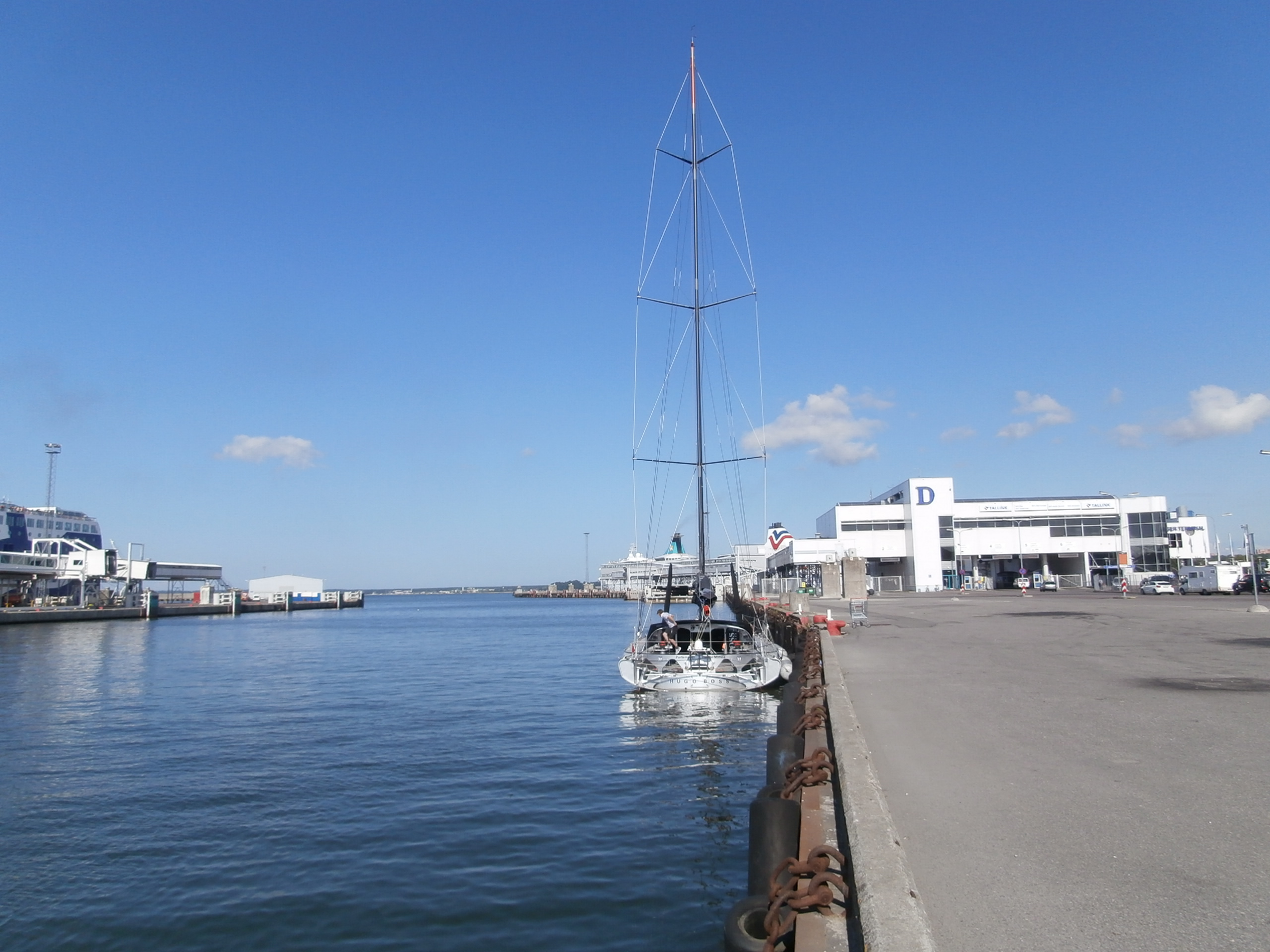 Hugo Boss in Port of Tallinn 11 July 2013